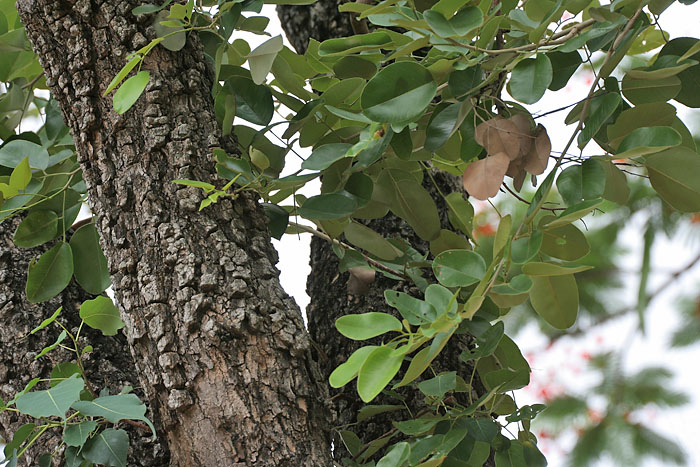 Red Sandalwood Pterocarpus santalinus in Talakona forest, in Chittoor District of Andhra Pradesh, India.